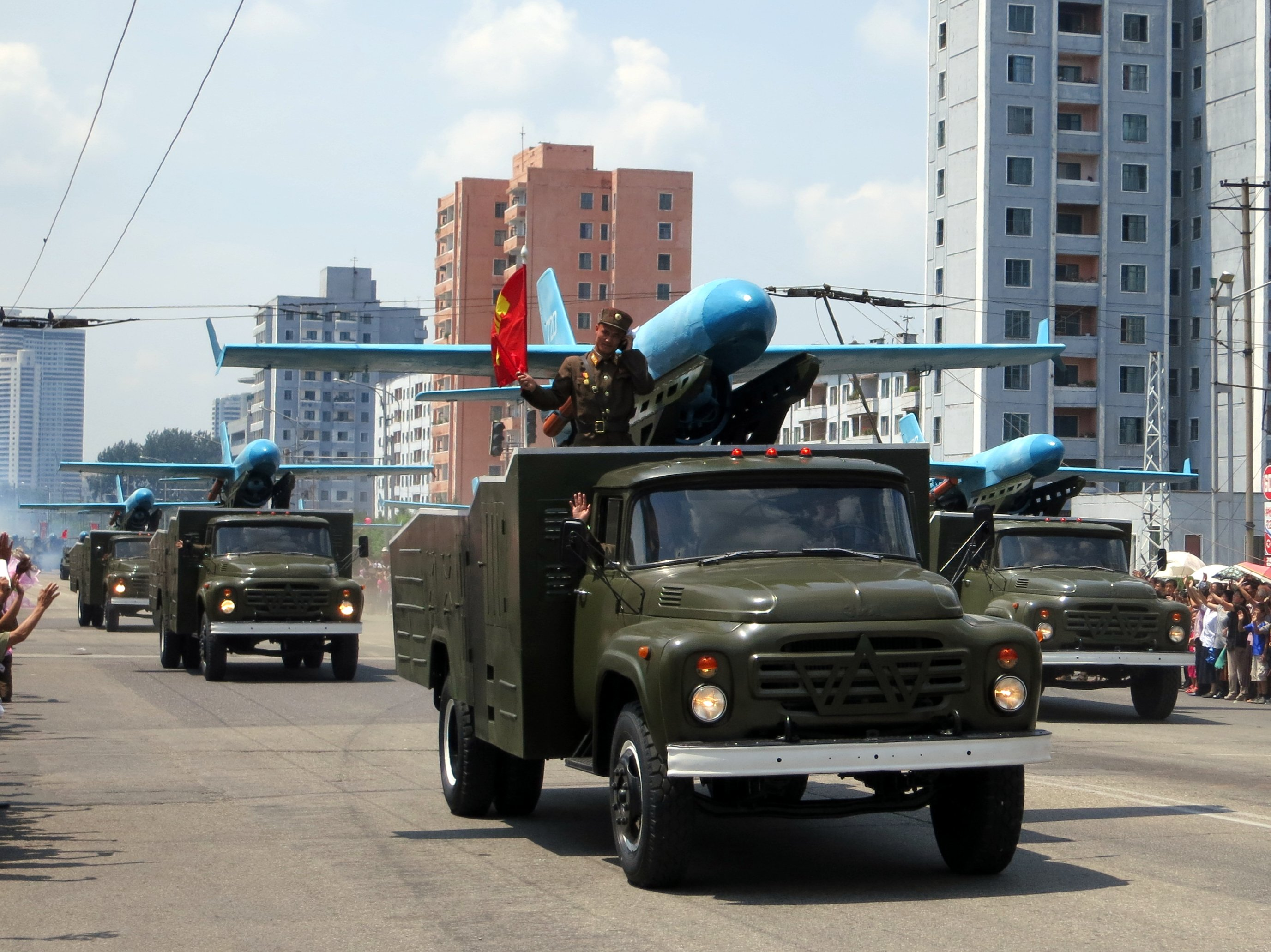 Don't know name yet UAV on Zil-130 - North Korea Victory Day-2013